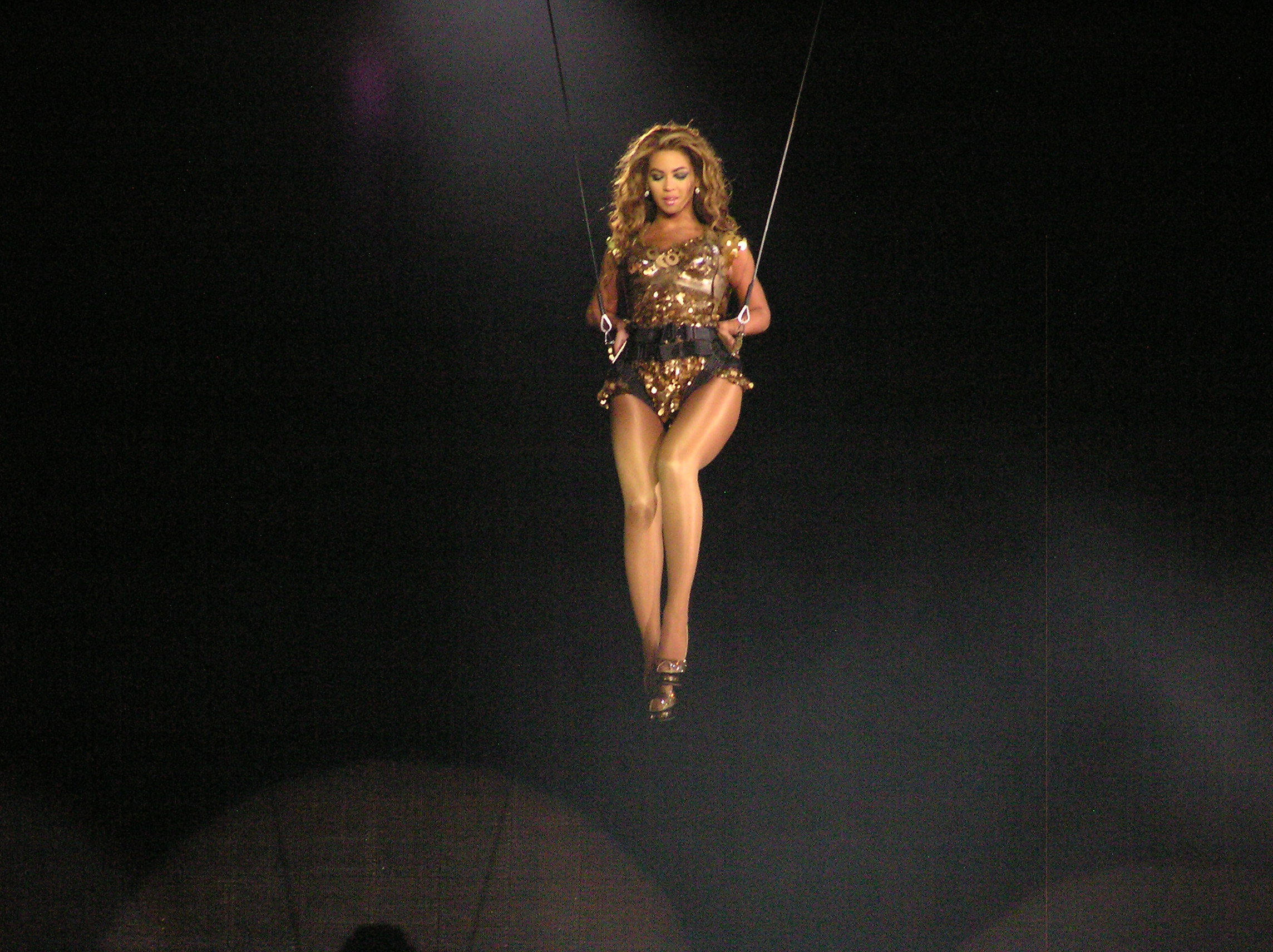 Beyoncé Newcastle 2009